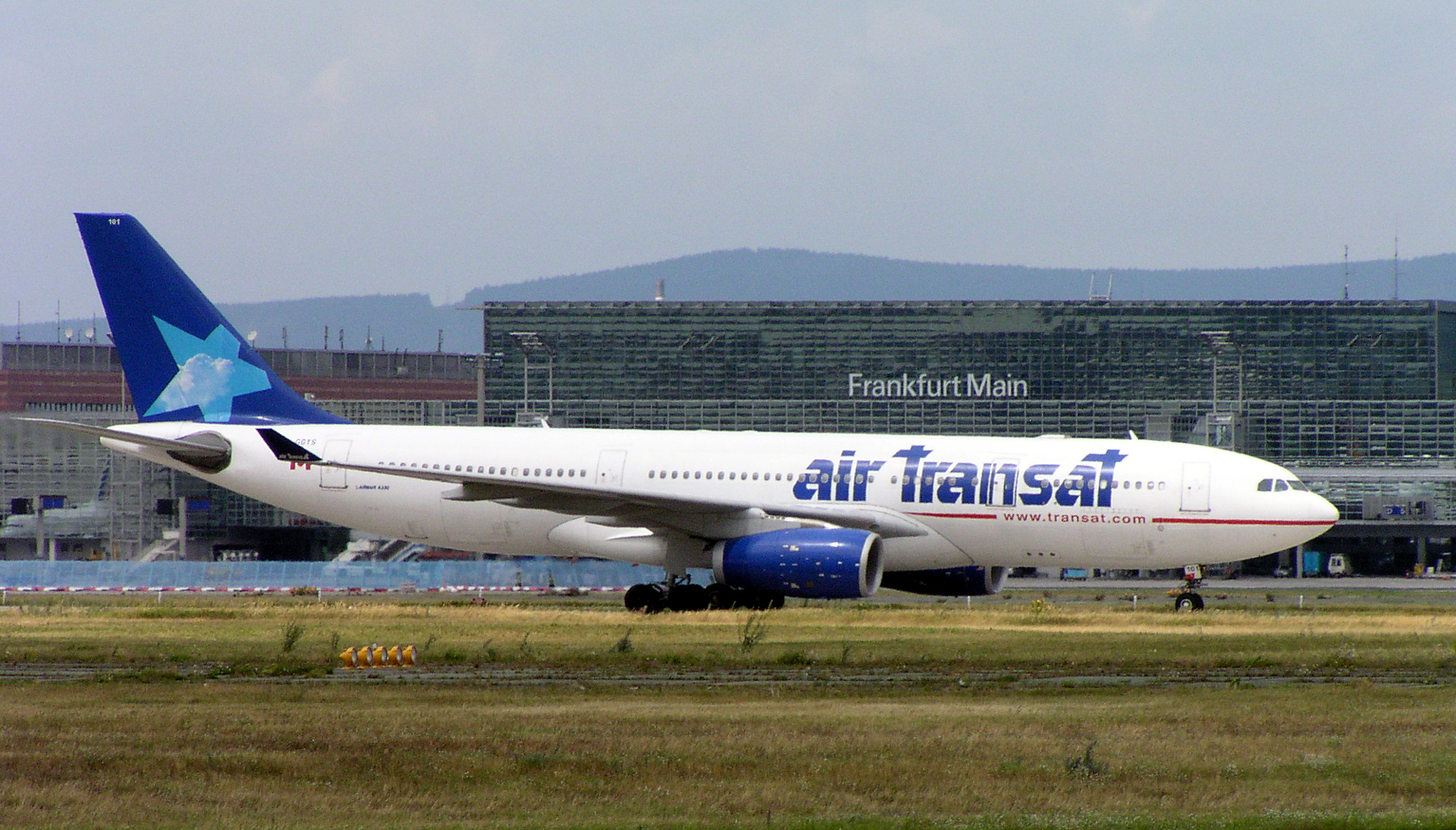 Description: Air Transat Airbus A330-200 in Frankfurt/Main, July 2005. Photographer: Arcturus Licence: GFDL + cc-by-sa-2.0-de